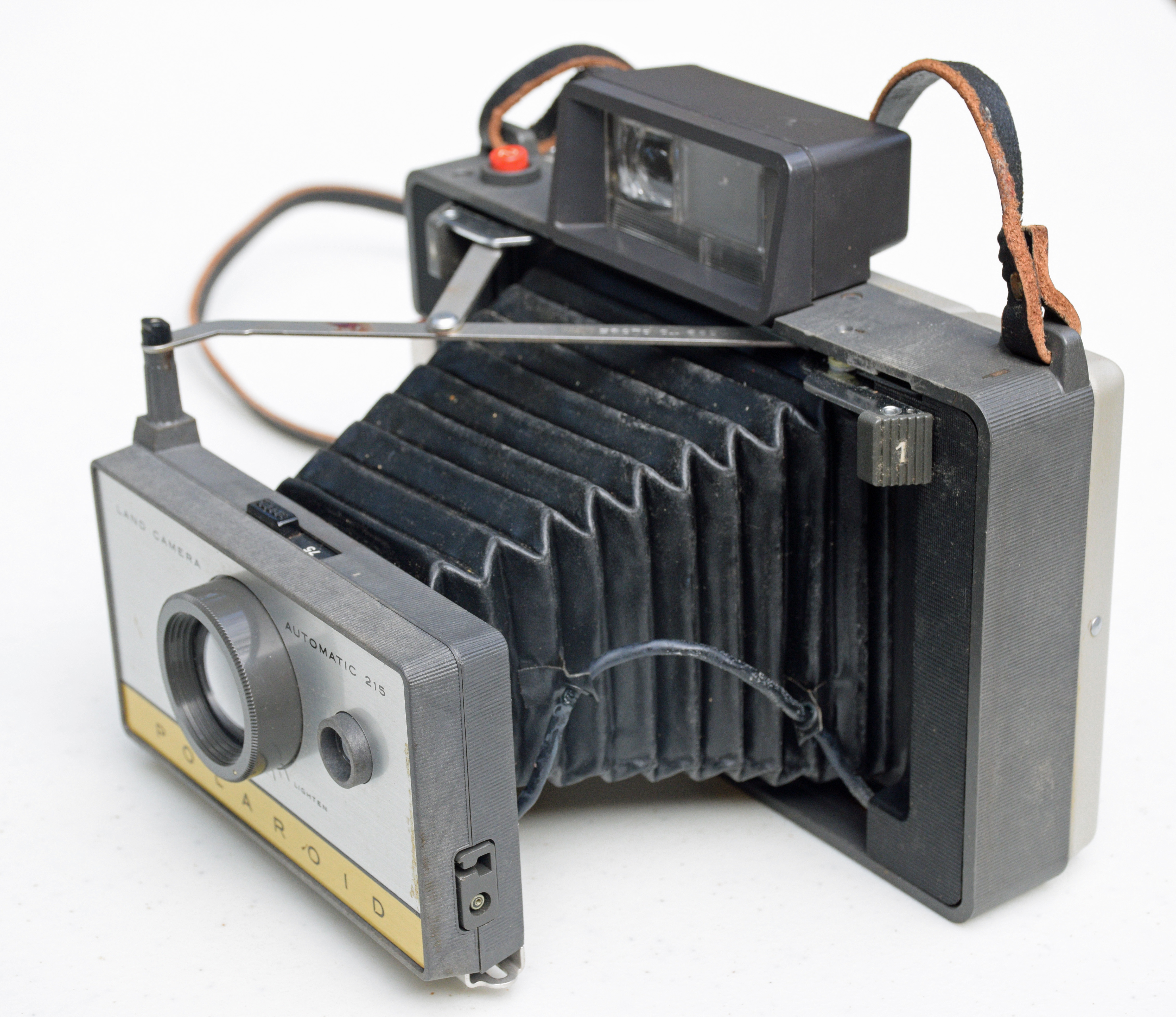 Polaroid model 215 instant camera, 1968-70